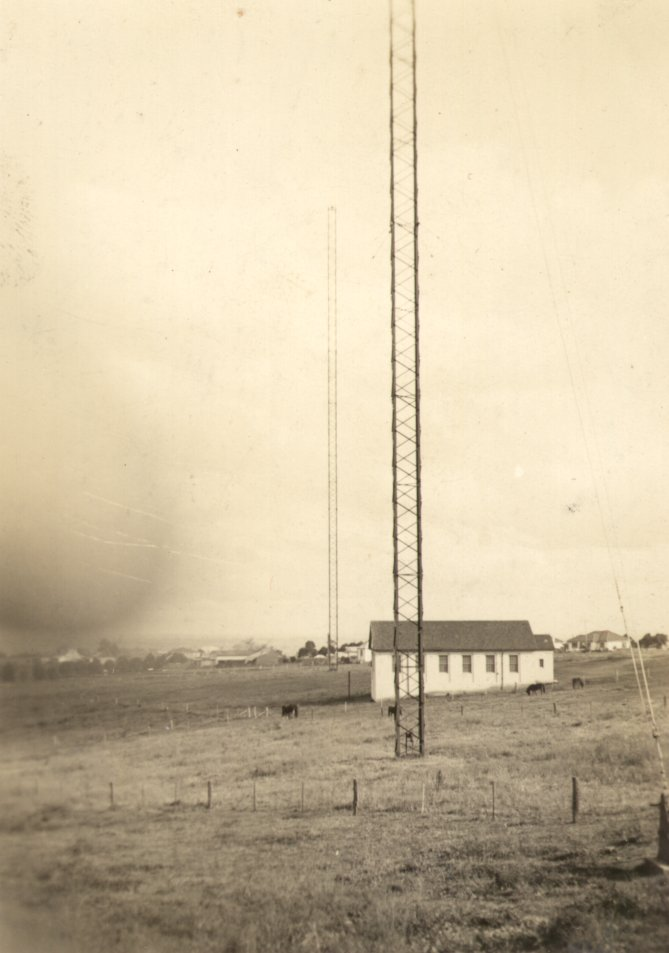 The old 2CH radio station in Ermington, Sydney, Australia, on the site of what is now Timor Barracks. Exact date is unknown, but it was before the 1960s. This photograph was taken by my grandfather William Devaney, who is now deceased. It was scanned by me. As such, I consider myself, John Dalton, to be the copyright holder. I agree to license this photograph under the GNU General Public License. This picture has been cropped slightly. I have the original uncropped file and the paper print to prove ownership if anyone tries to falsely claim they own the photograph. Category:Images of Sydney